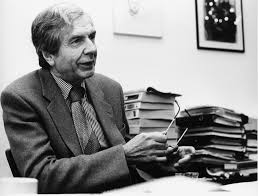 Marc Caudron, was a professor of theology at the University of Louvain in Belgium.